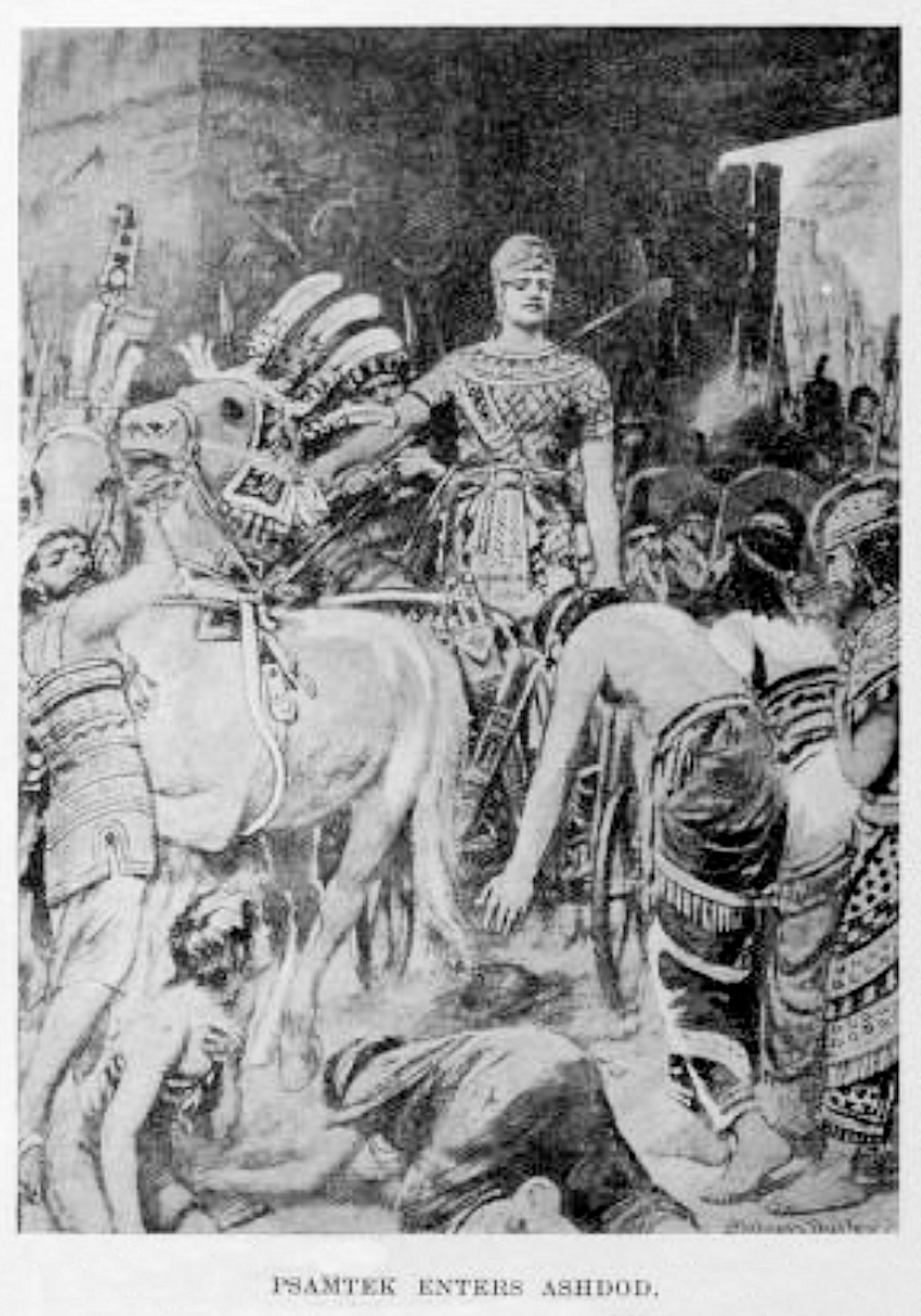 Egypt - Psamtek Enters Ashdod